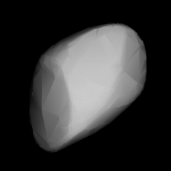 3D convex shape model of 744 Aguntina, computed using light curve inversion techniques. J. Hanuš, J. Ďurech, M. Brož, B. D. Warner (June 2011). "A study of asteroid pole-latitude distribution based on an extended set of shape models derived by the lightcurve inversion method". Astronomy and Astrophysics 530: A134. ISSN 0004-6361. arXiv